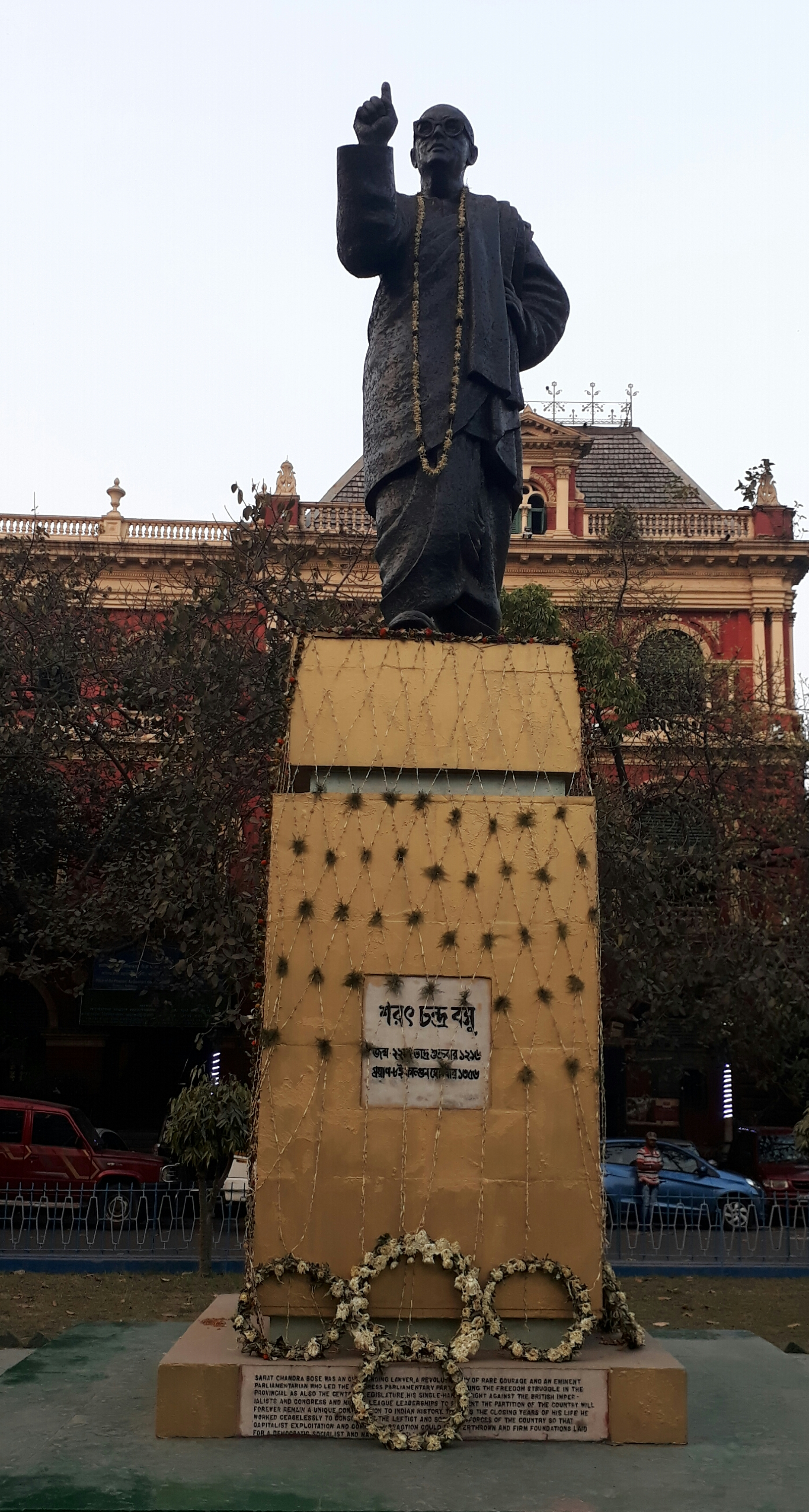 Statue of Sarat Chandra Bose, beside Calcutta High Court